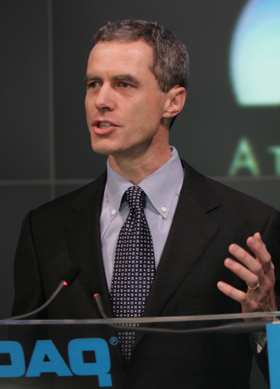 Craig Barratt opening NASDAQ market February 27, 2006